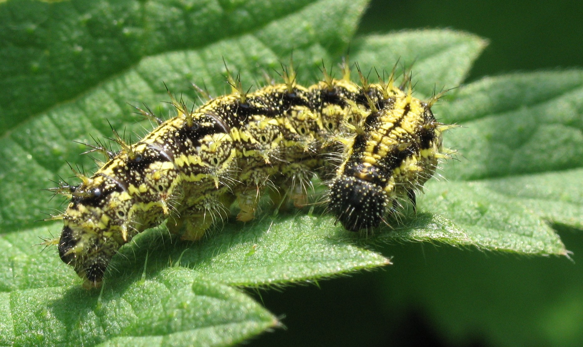 Aglais urticae caterpillar, Location Zgierz (Słupsk County, Pomeranian Voivodeship, Poland)